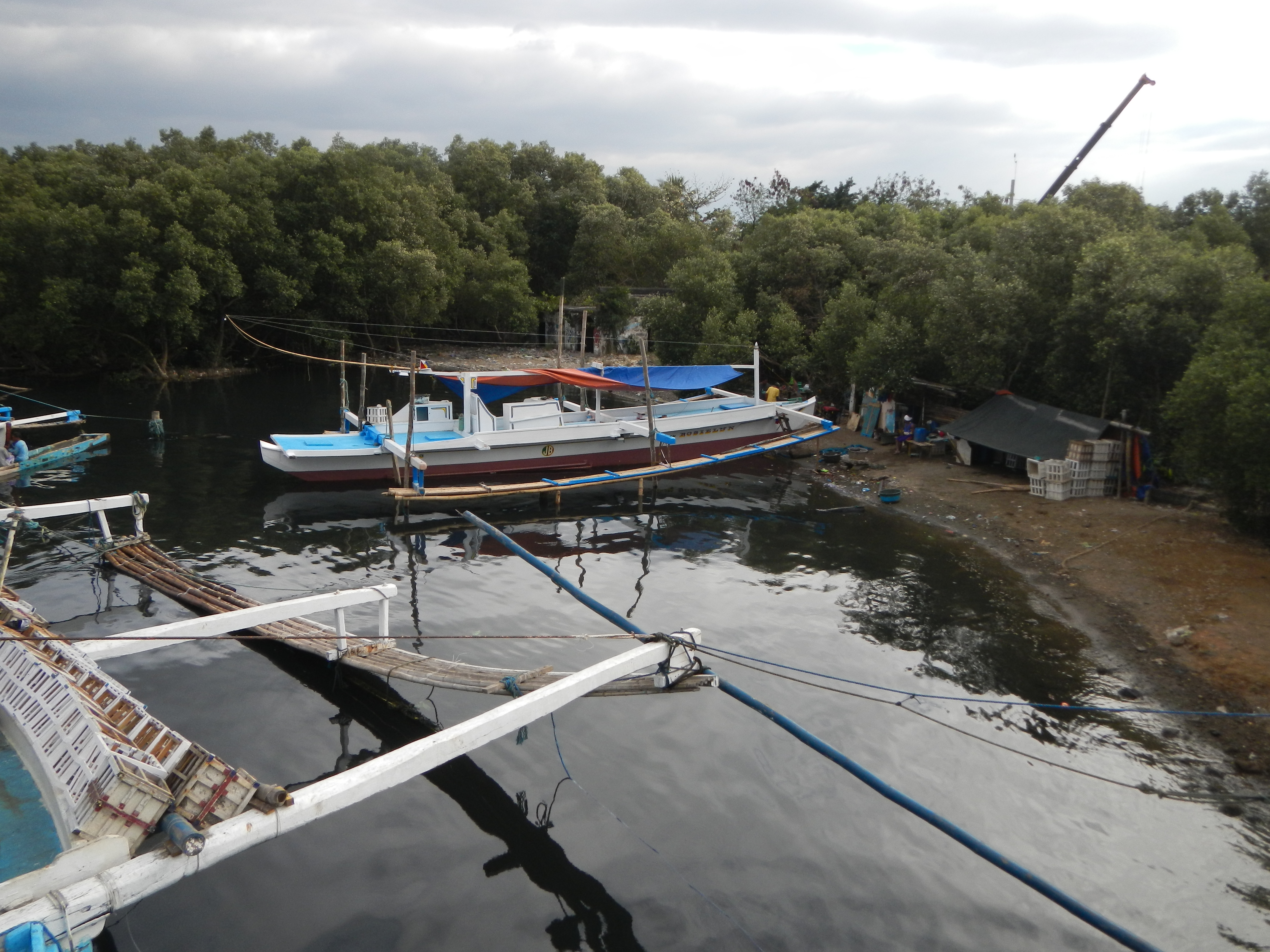 Tanza, Navotas Bridge and River Navotas Drains water from Navotas connects with Dampalit River Dumps water to Tangos River along the Circumferential Road 5 C-5 North Extension the C-5 road is being planned to be extended to the North Harbor and Navotas; List of rivers and estuaries in Metro Manila.